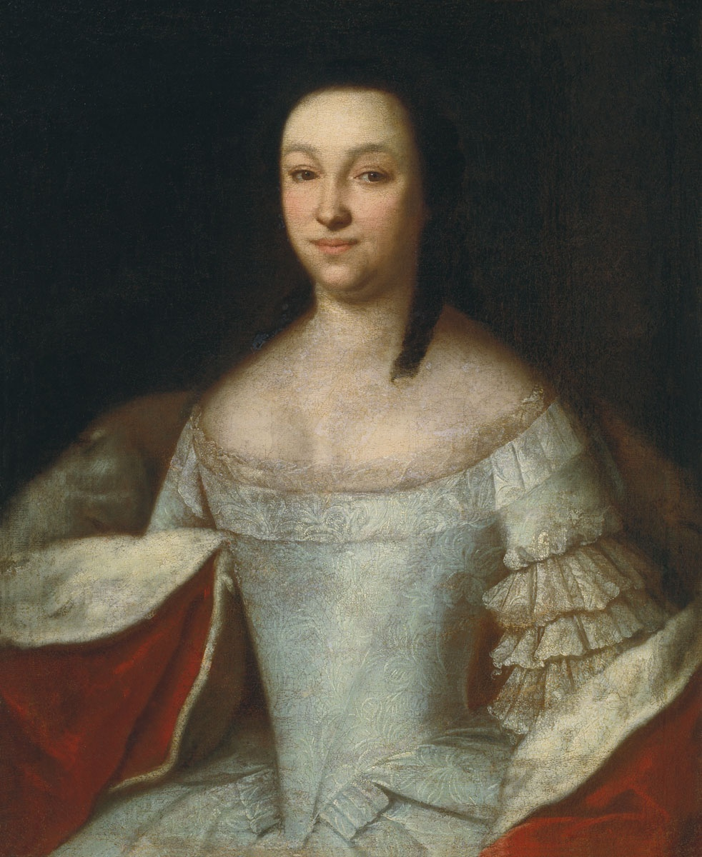 Portrait of Natalia Dolgorukova (1714–1771)